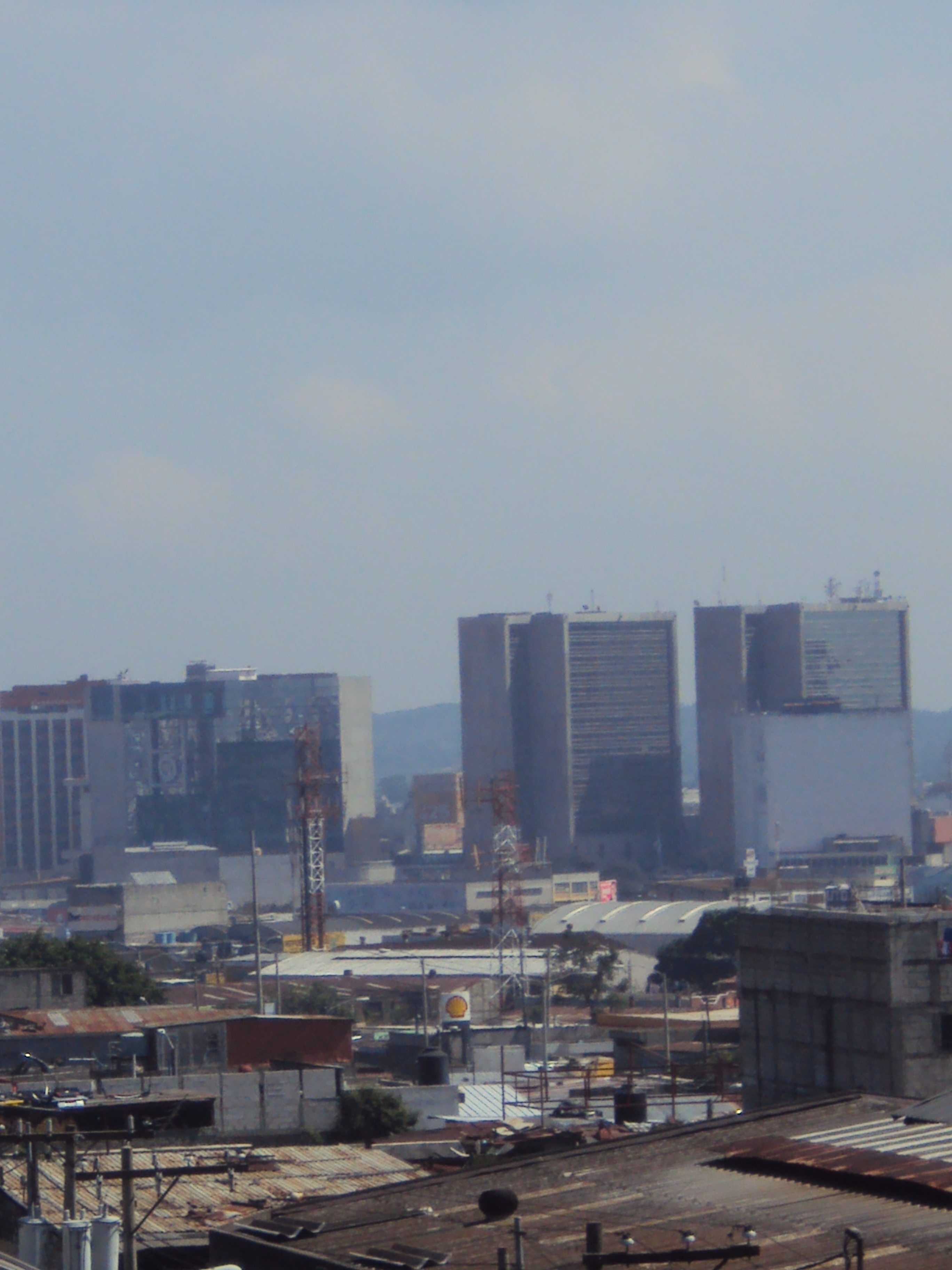 Centro Financiero, Banco Industrial, zona 4 ciudad de Guatemala